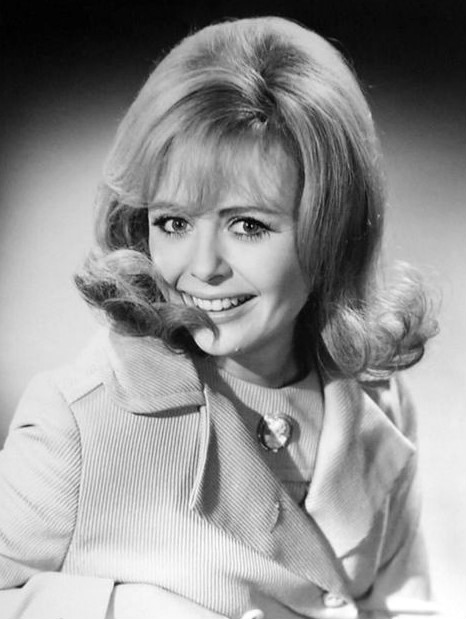 Publicity photo of Deborah Walley from the television program The Mothers-in-Law.